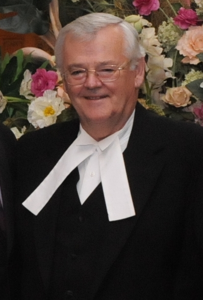 Ambassador Jacobson and Senate Speaker Noel Kinsella